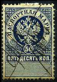 Russia stamp. Kanceljarskaja poshlina.